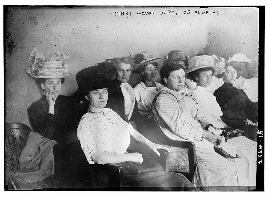 First woman jury, Los Angeles, 1911. Title from unverified data provided by the Bain News Service on the negatives or caption cards.